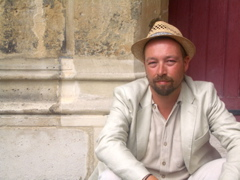 Finnish sci-fi writer Kimmo Lehtonen in Paris 2005